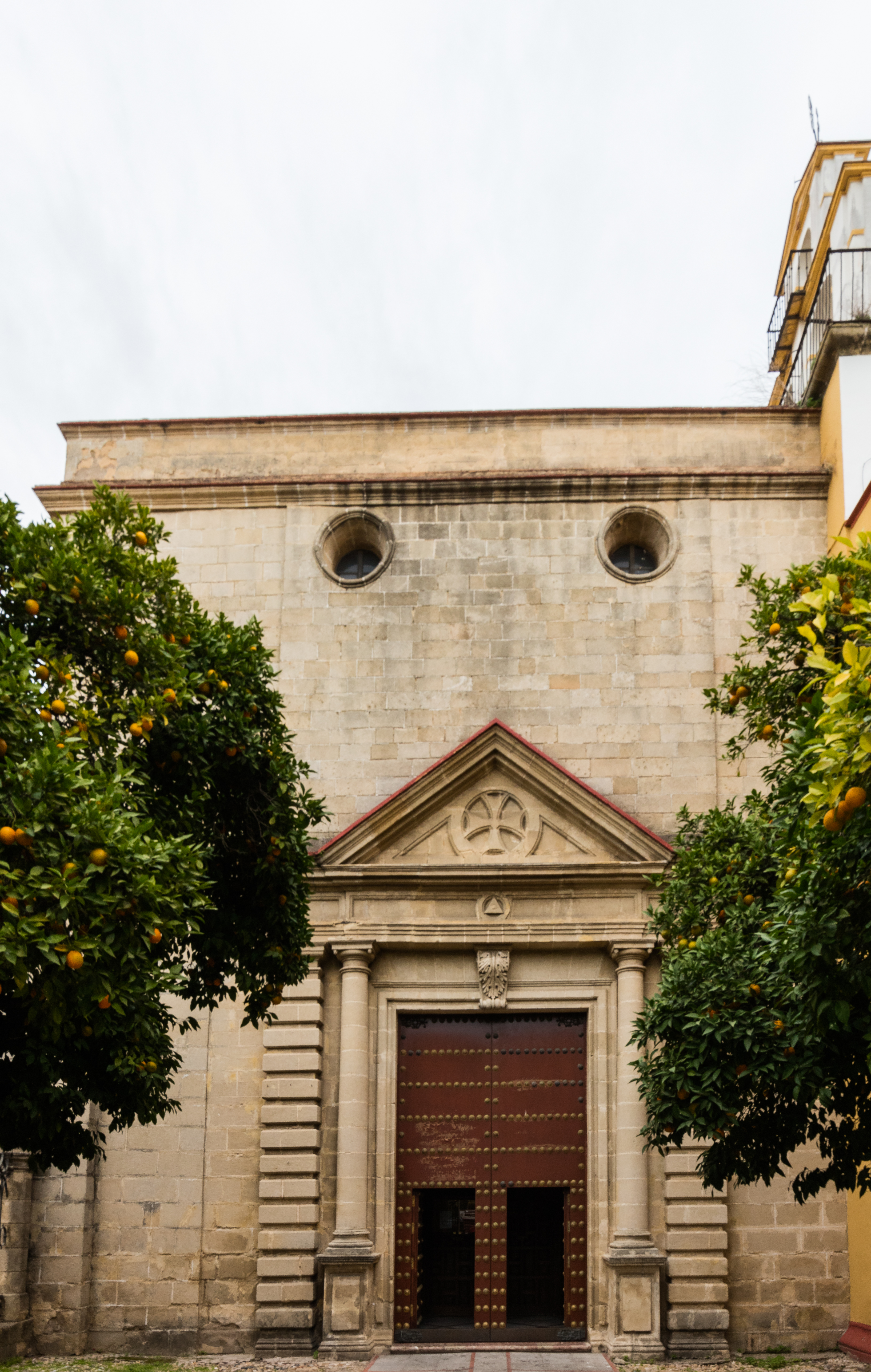 Church of Santísima Trinidad, Jerez de la Frontera, Spain